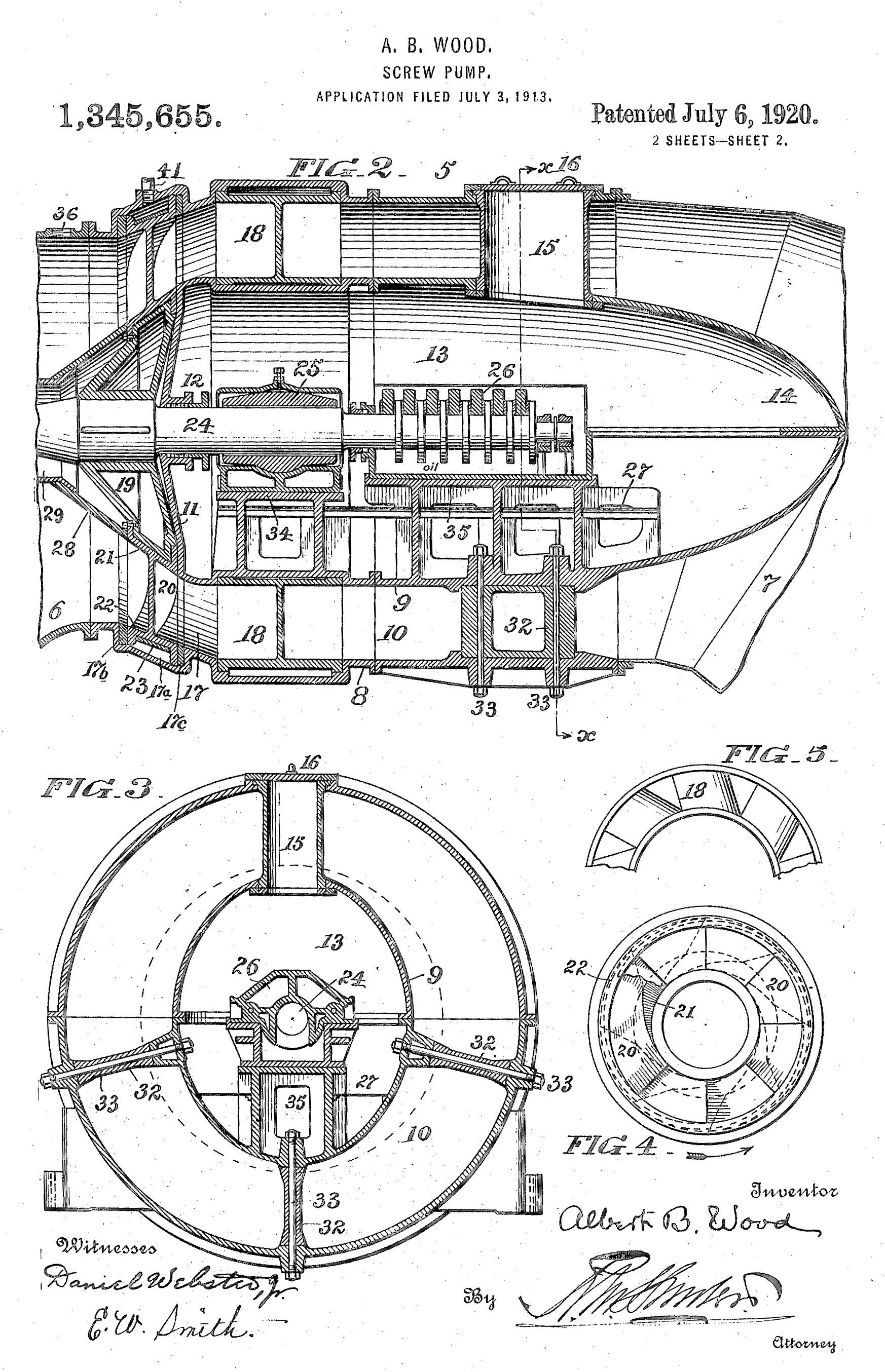 Diagram of Patent 1,345,655 Wood Screw Pump.